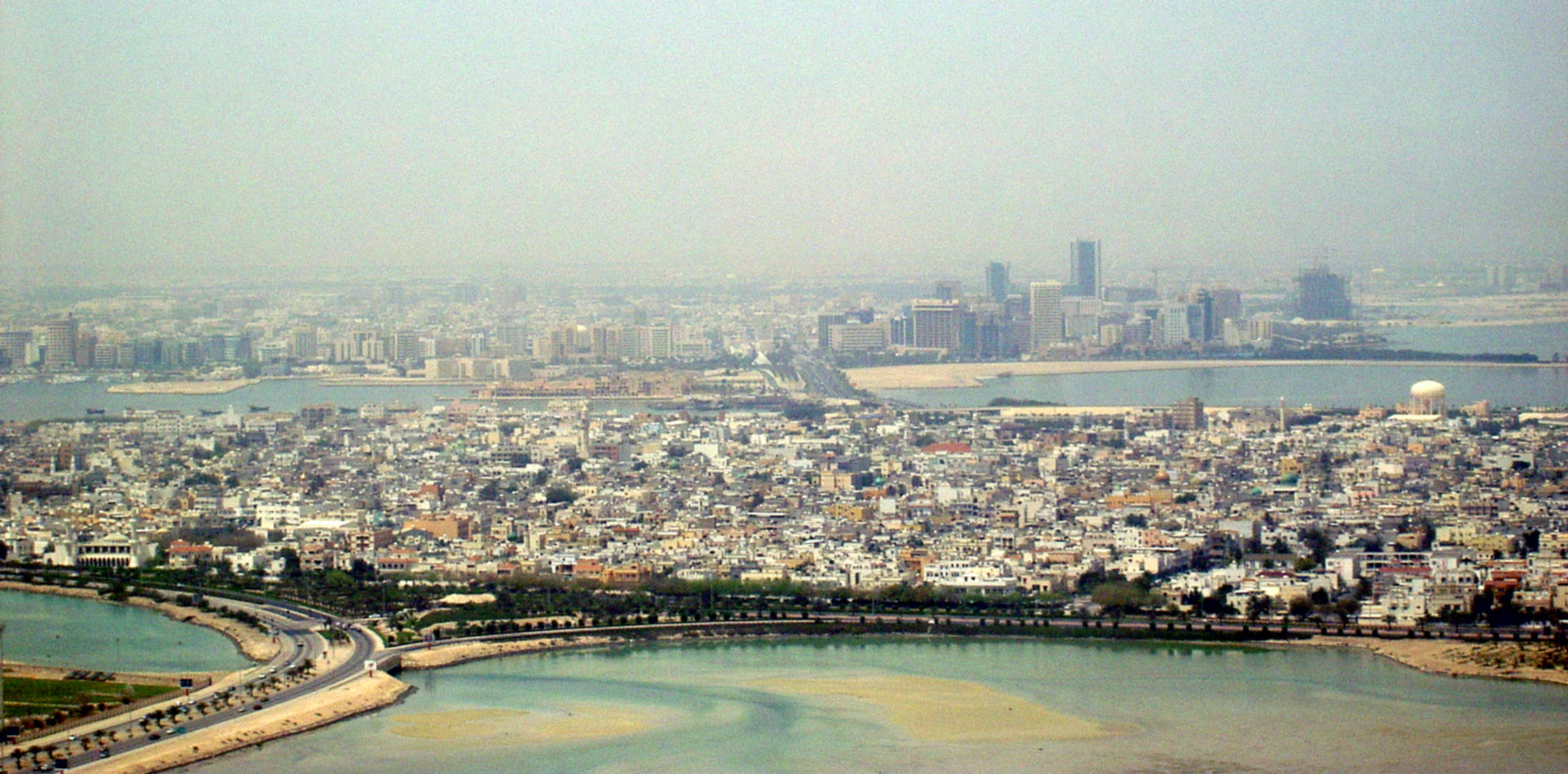 Muharraq Island (foreground), Manama (background), picture taken by User:Leshonai on 2005-05-11